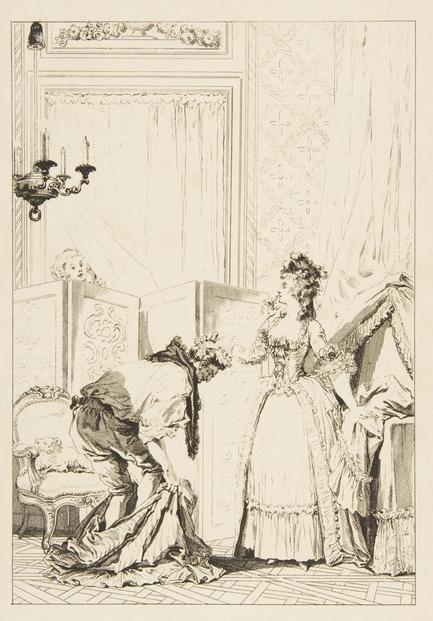 From Contes et nouvelles en vers par Jean de La Fontaine. A Paris, de l'imprimerie de P. Didot, l'an III de la République, 1795